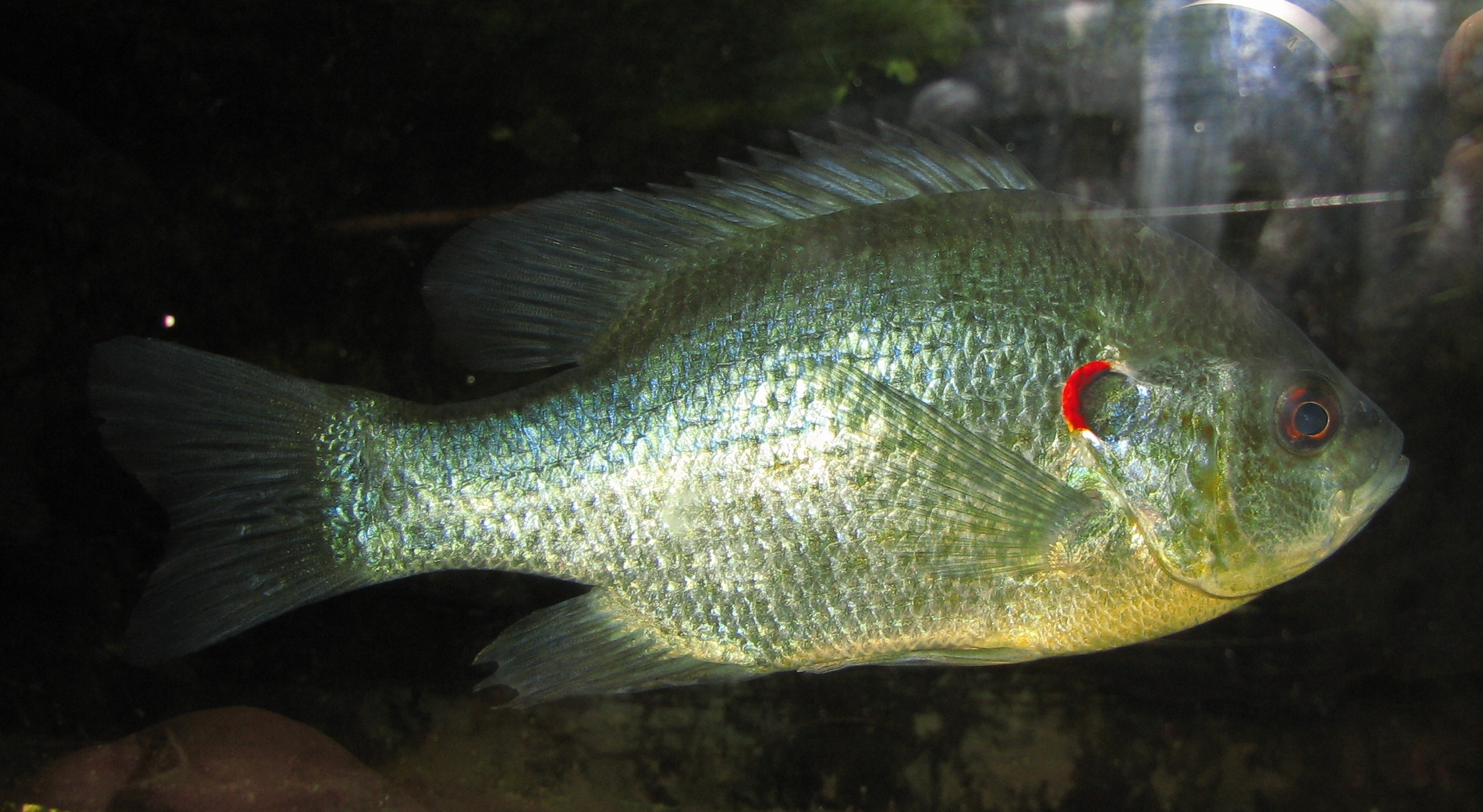 Redear sunfish (Lepomis microlophus)